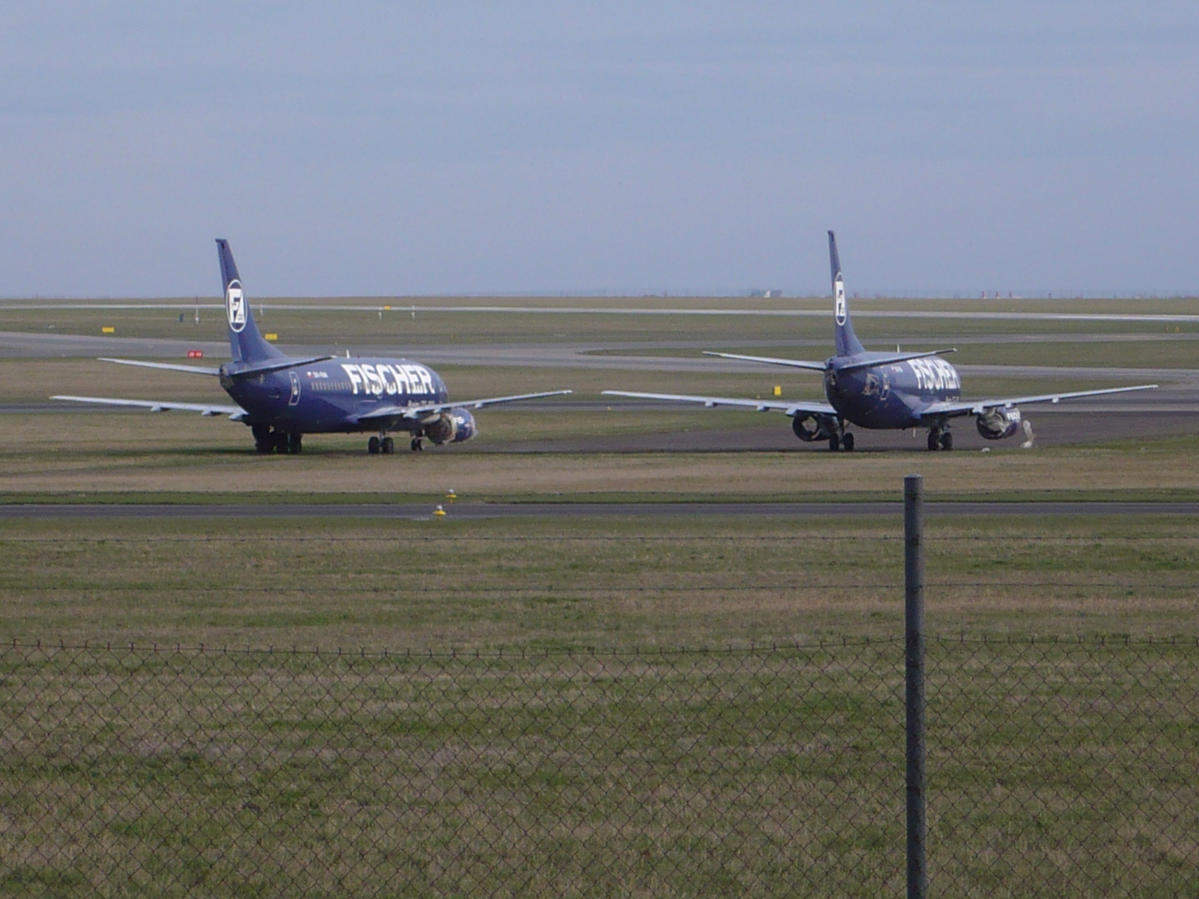 Boeings 737-300 in Fischer Air livery, Ruzyně Airport, Czech Republic